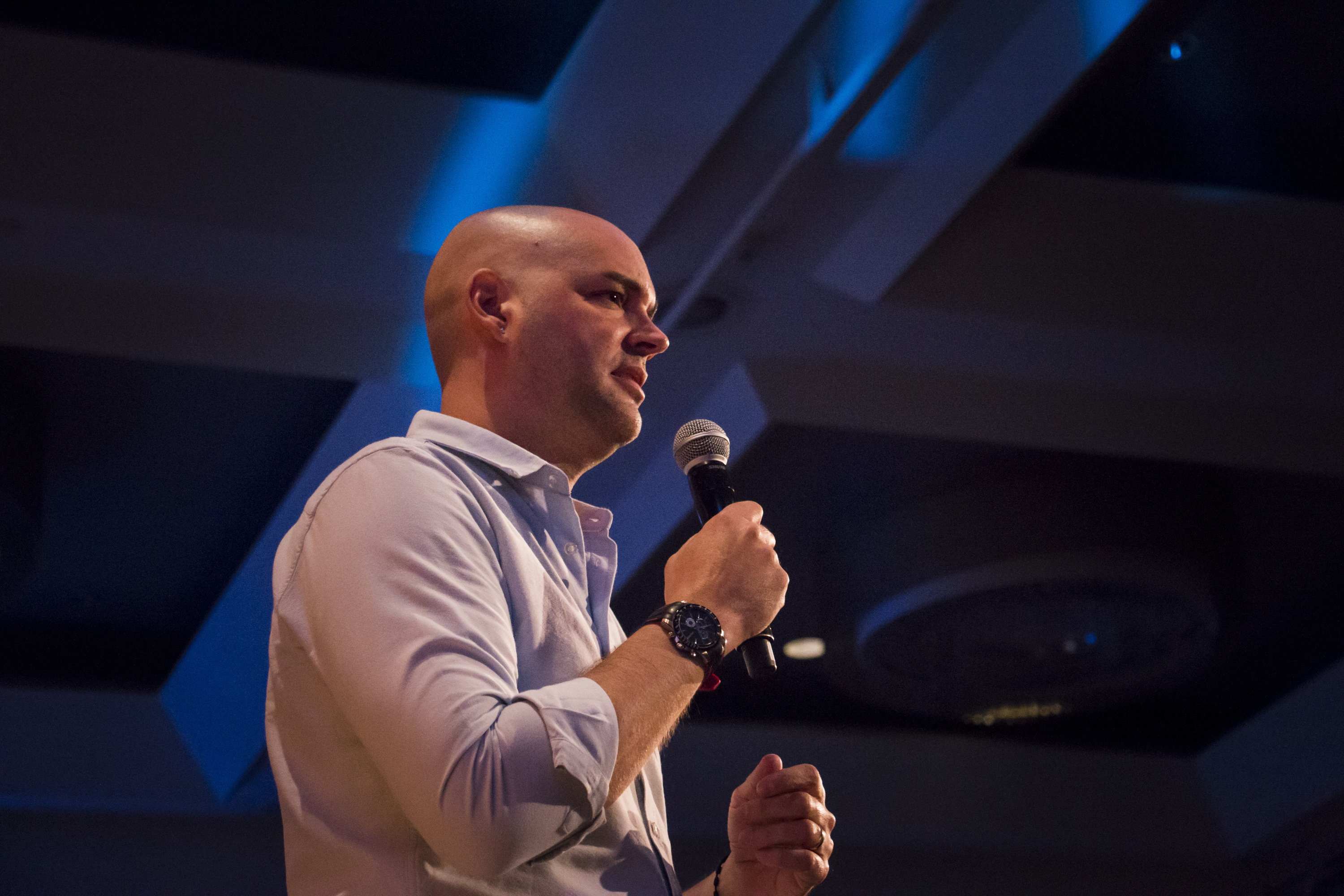 Nicolas Duvernois, Canadian entrepreneur and founder of Pur Vodka and romeo's gin, giving a speech at Influence MTL